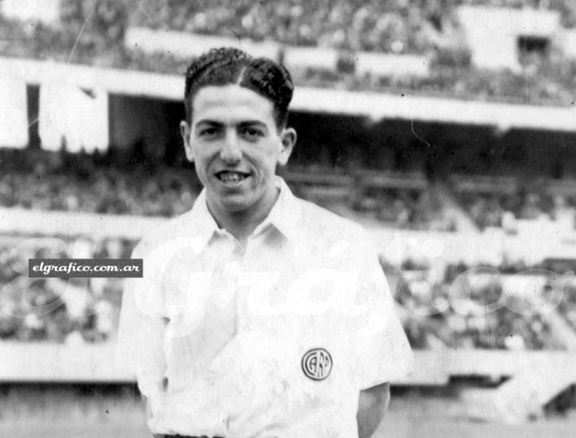 A young Angel Labruna.